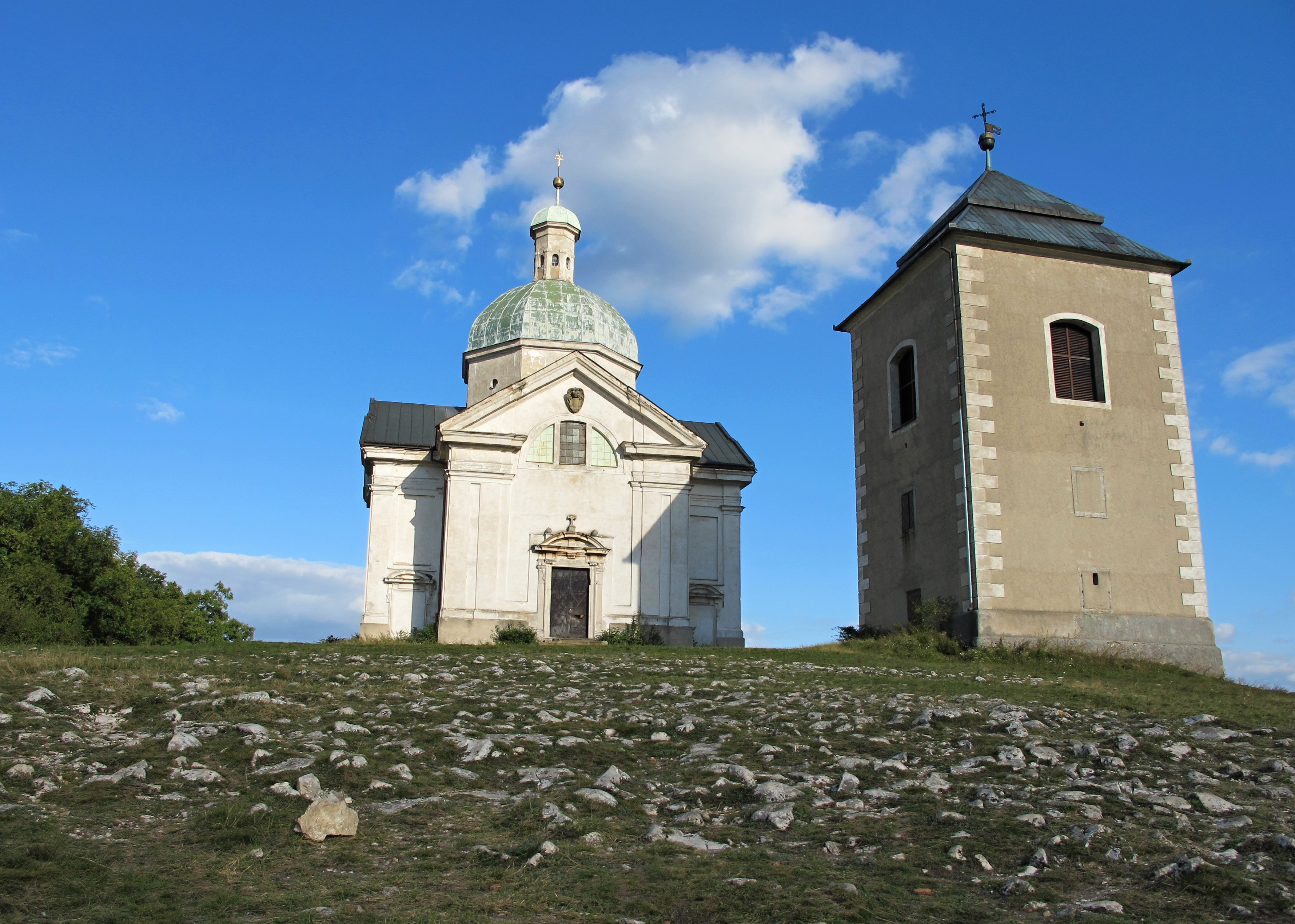 The top of Svatý kopeček is dominated with St. Sebastian pilgrimage church, MIkulov in Břeclav District